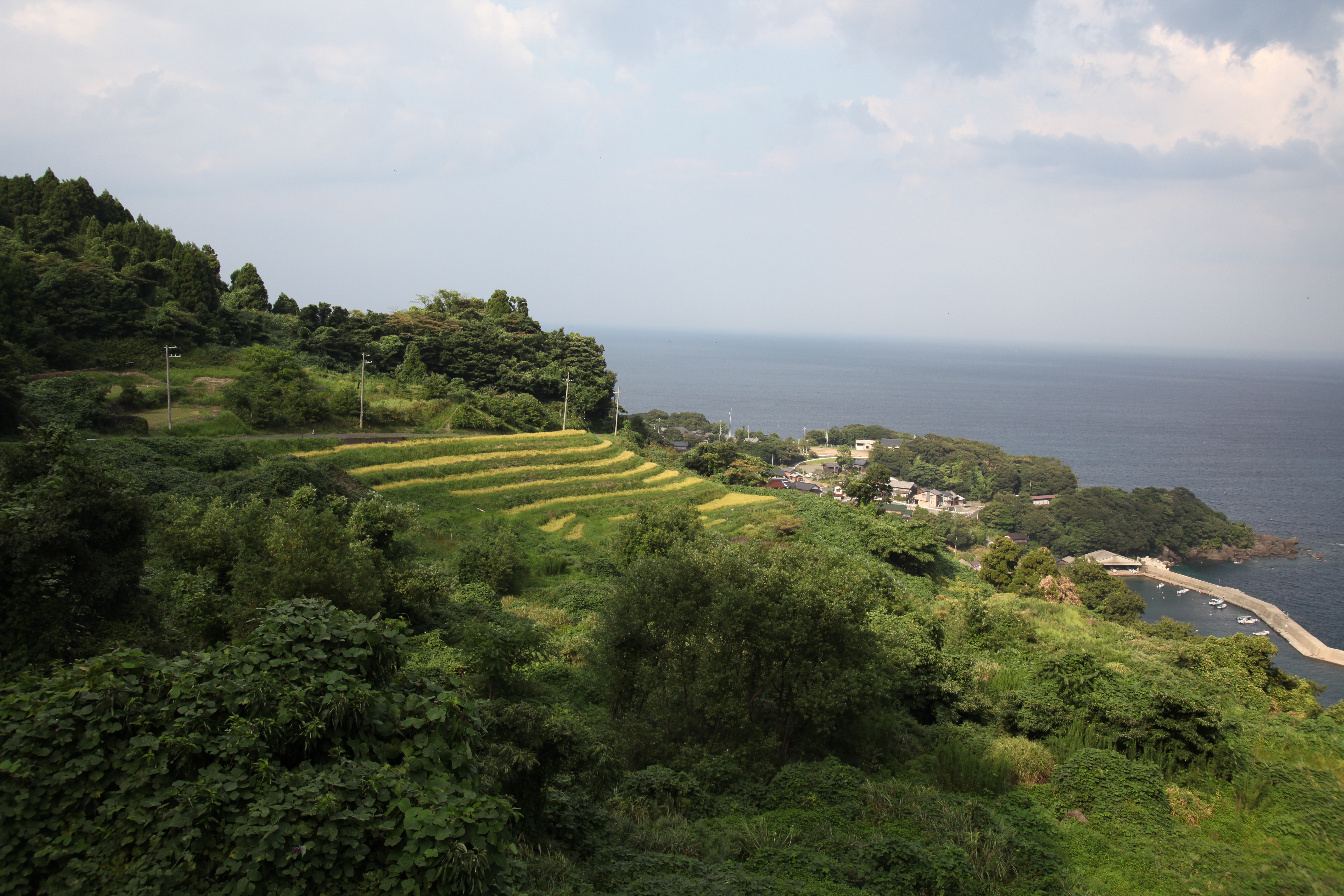 Nii no Senmaida(Rice Terraces at Nii, Ine-town, Kyoto prefecture)